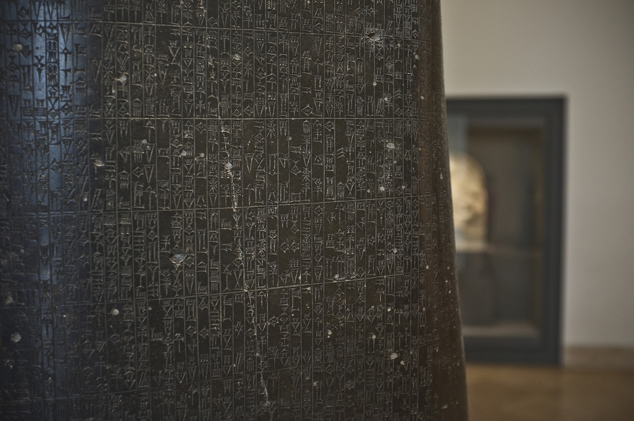 Code of Hammurabi